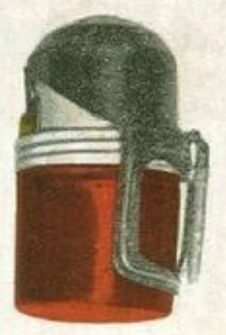 italian ww2 hand grenade